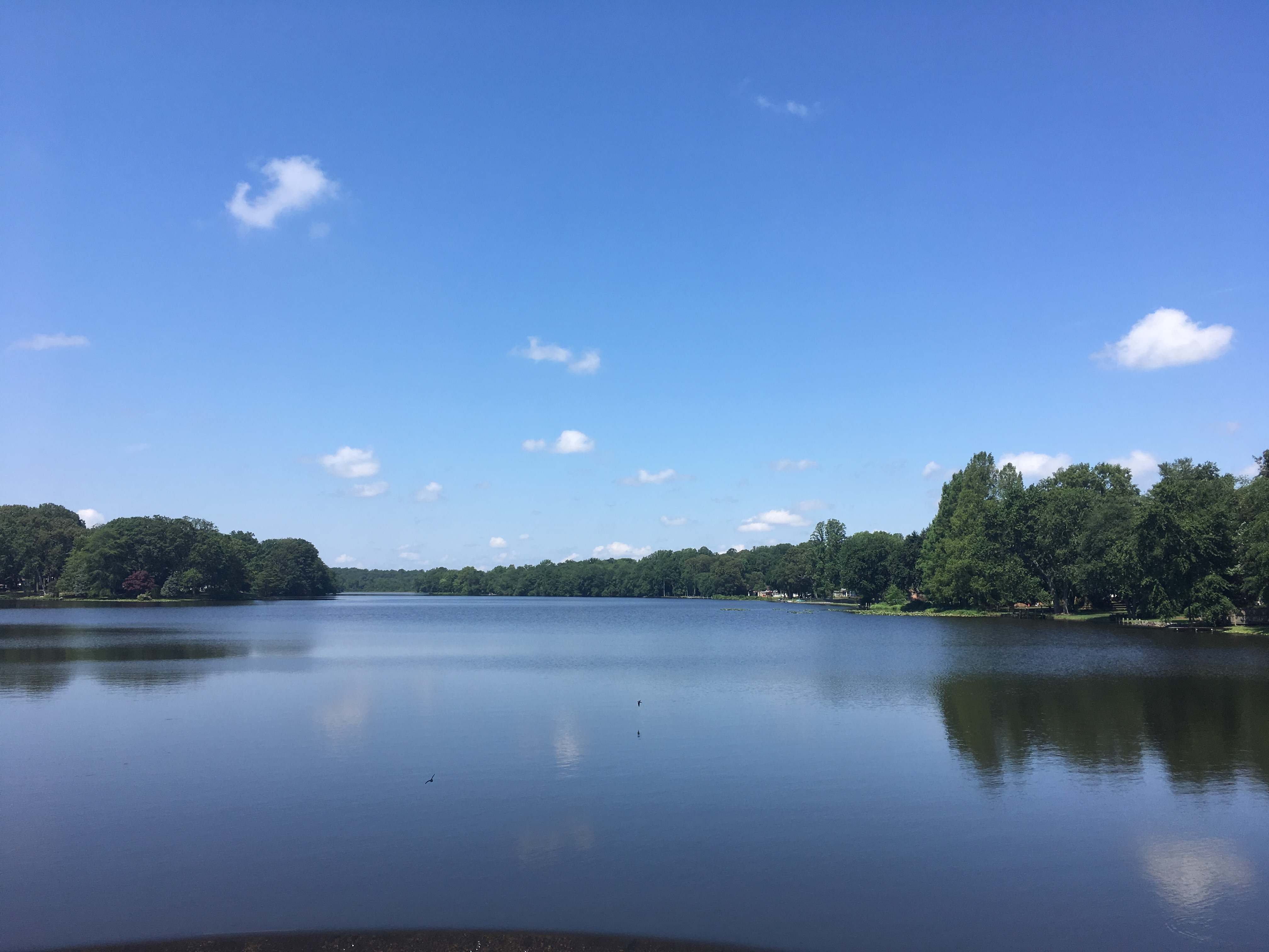 A view of Haven Lake in Milford, Delaware from the dam just west of U.S. Route 113 (Dupont Boulevard)